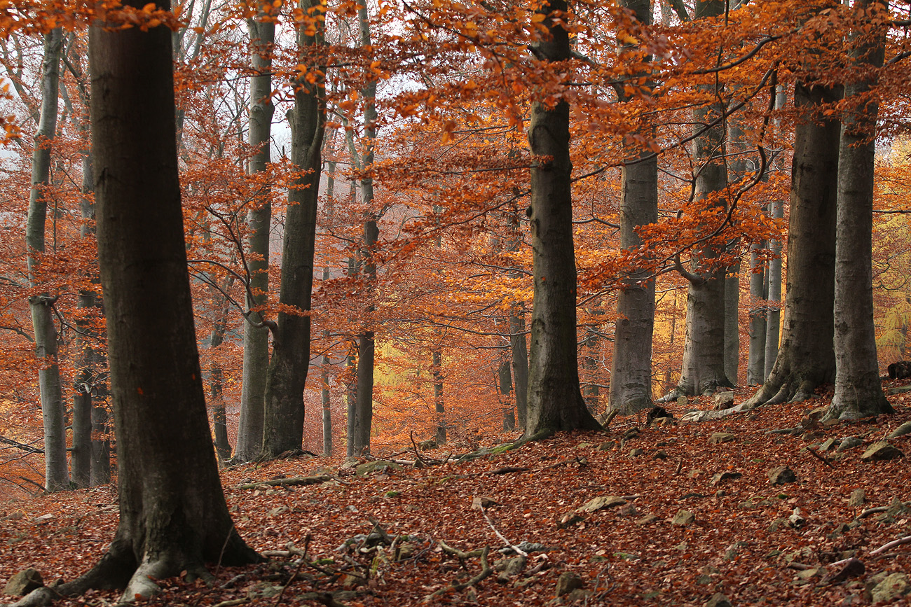 Křivoklátsko - Podzimní bučina